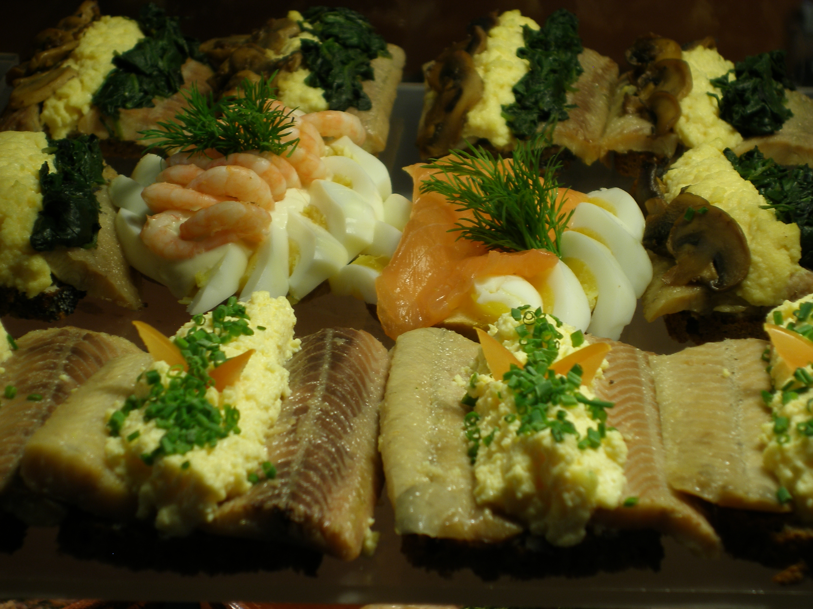 Decorated open-faced sandwiches (pyntet smørrebrød) in showcase of Restaurant Ida Davidsen, St. Kongensgade 70, Copenhagen, Denmark